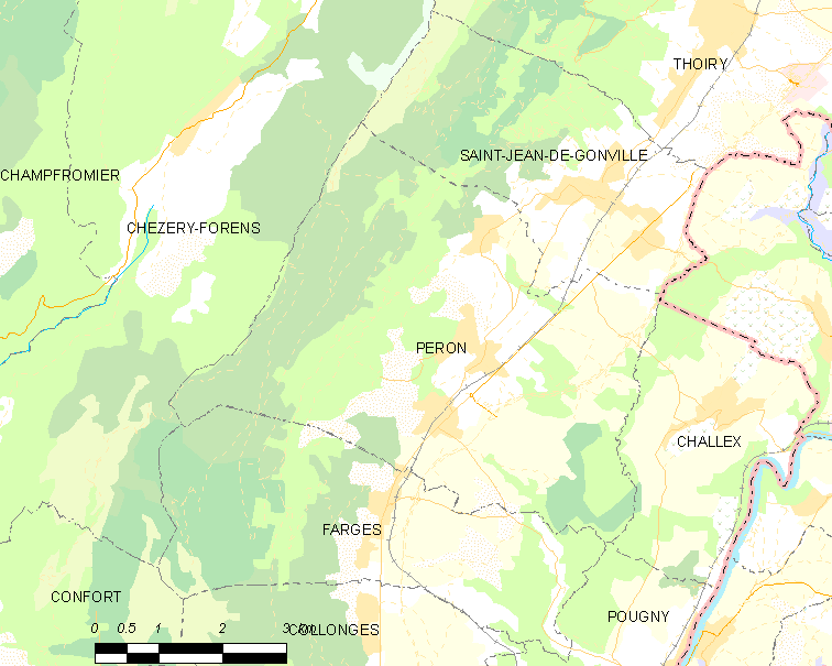 Map of French commune: Péron Map commune FR insee code 01288.png